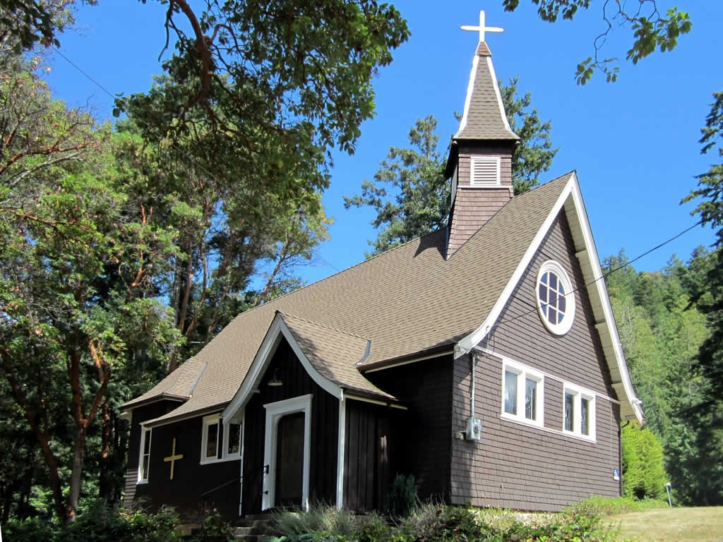 Mary Magdaline Church (1898) near Miners Bay, Mayne Island, Canada.